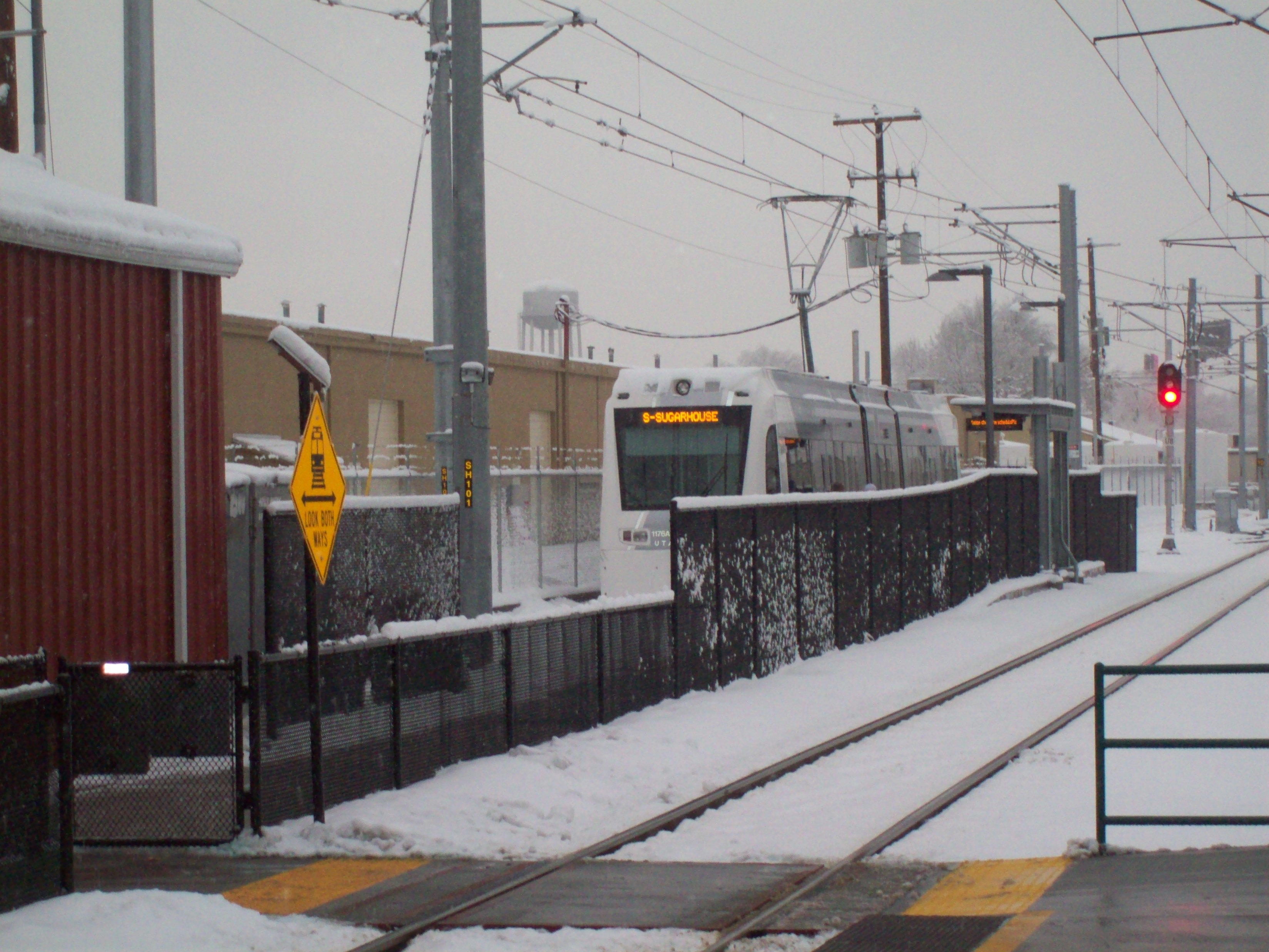 Looking south at the S Line platform from the TRAX platform at Central Pointe Station